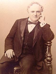 John R. Fellows, New York Congressman